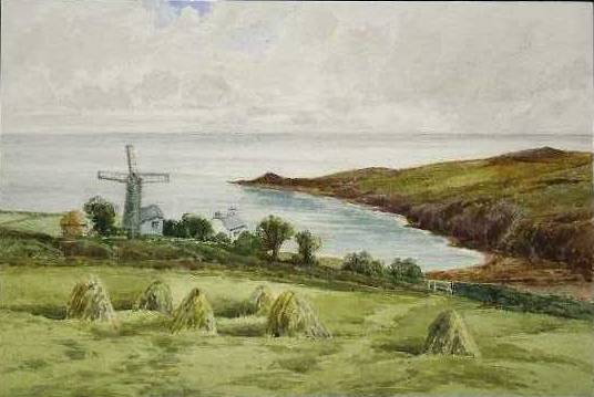 painting of windmill at Baldromma, Isle of Man